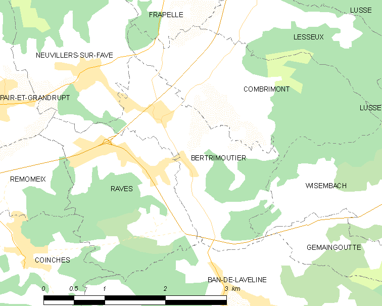 Map of French municipality Bertrimoutier